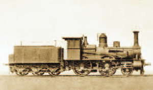 3000th steam locomotive of Borsig iron works, delivered in 1873 to the Berlin and Hamburg Railway